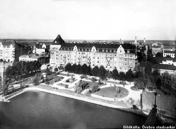 The park "Centralparken", Örebro, Sweden